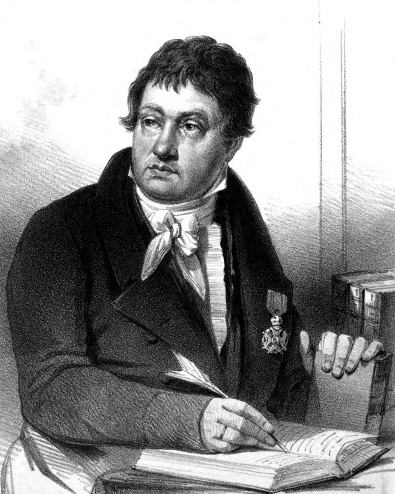 Portrait of Jan-Jacques Lambin (1765-1841), first city archivist of Ypres